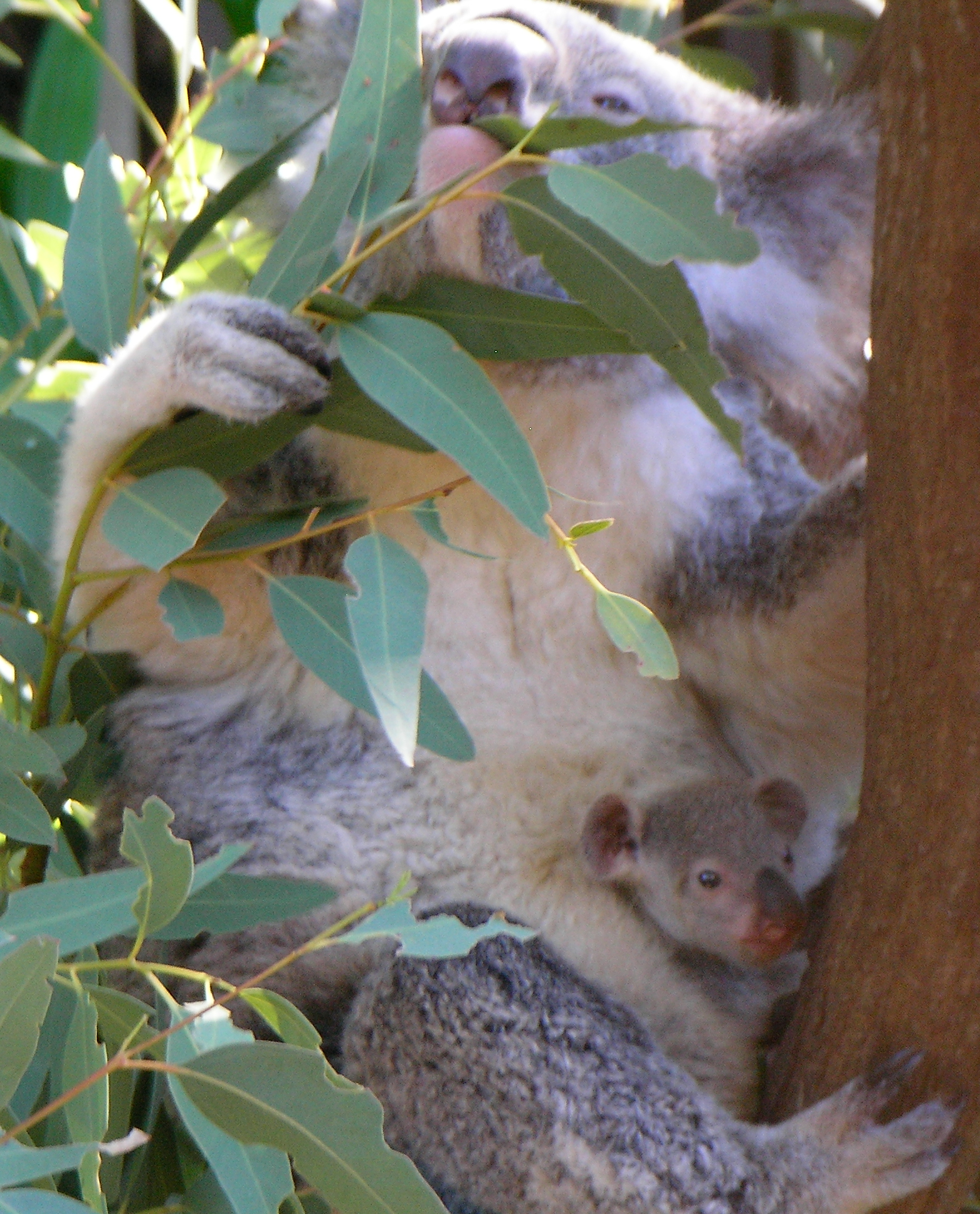 Koala with young on Hamilton Island, Australia